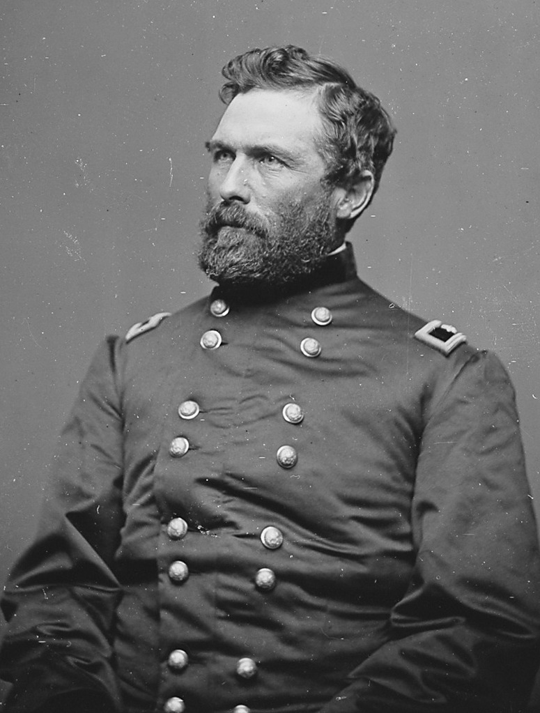 Hiram George Berry, Union General. National Archives Identifier: 527978